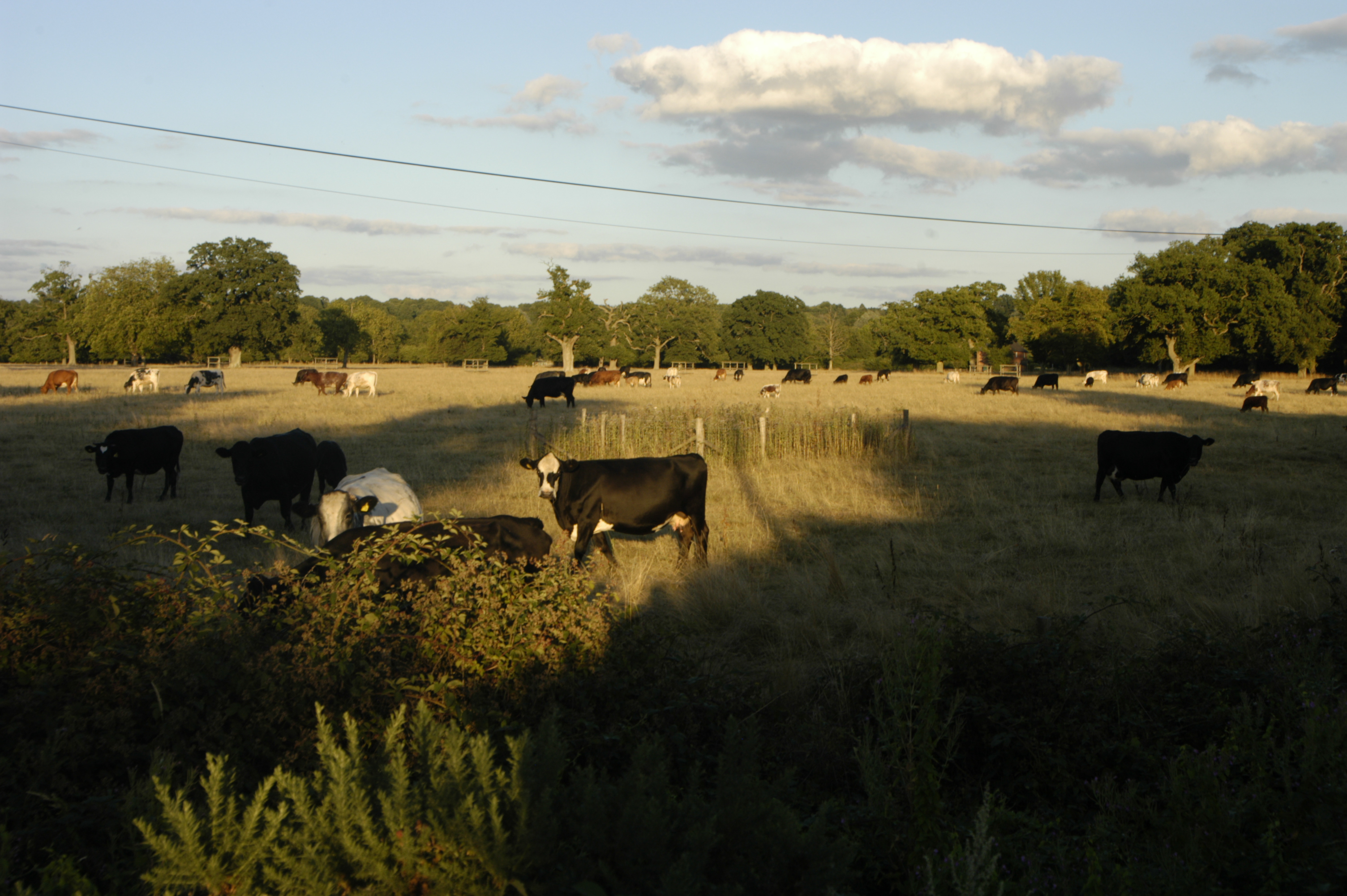 Photo by me (R. de Salis,Rodolph (talk) 23:34, 7 June 2014 (UTC)), Wasing, Hampshire, UK. Cattle in the park, summer 2013. Captioned As { }